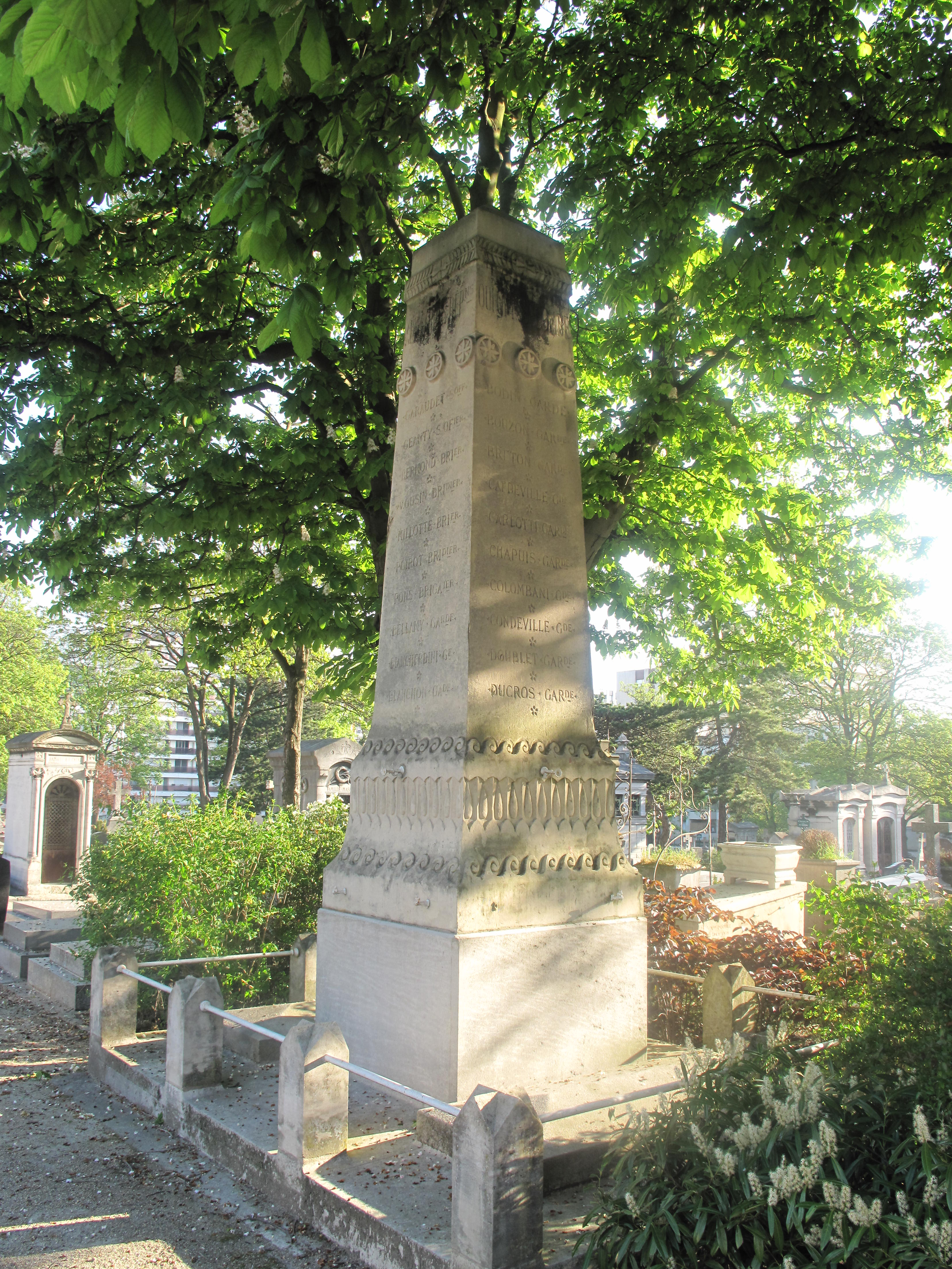 Monument in the memory of the hostages shot during the Paris Commune (1871). Cemetery of Belleville, Paris 20th arr.